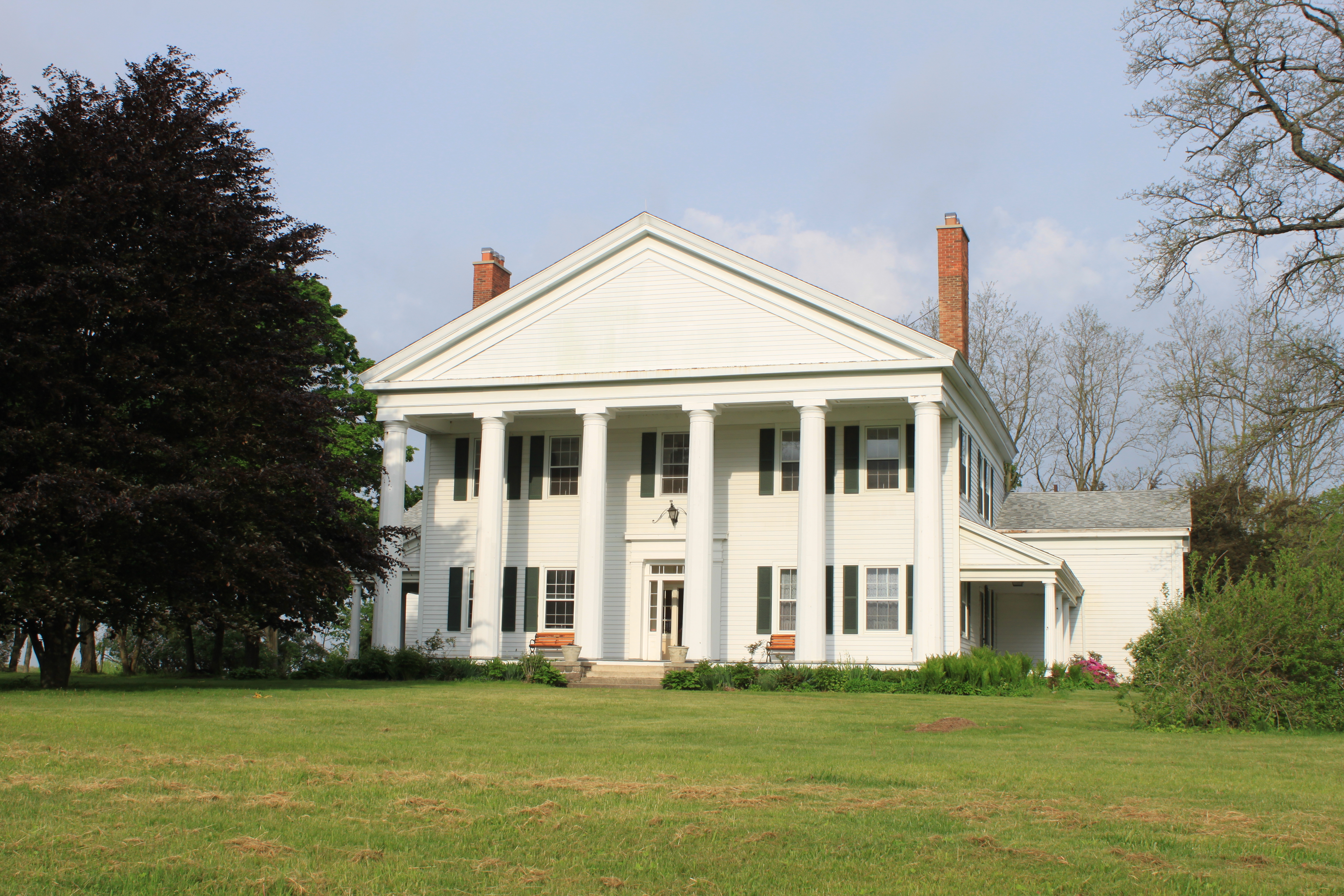 Gordon Hall, 8347 Island Lake Road, Dexter, Michigan. The building is listed in the National Register of Historical Places.